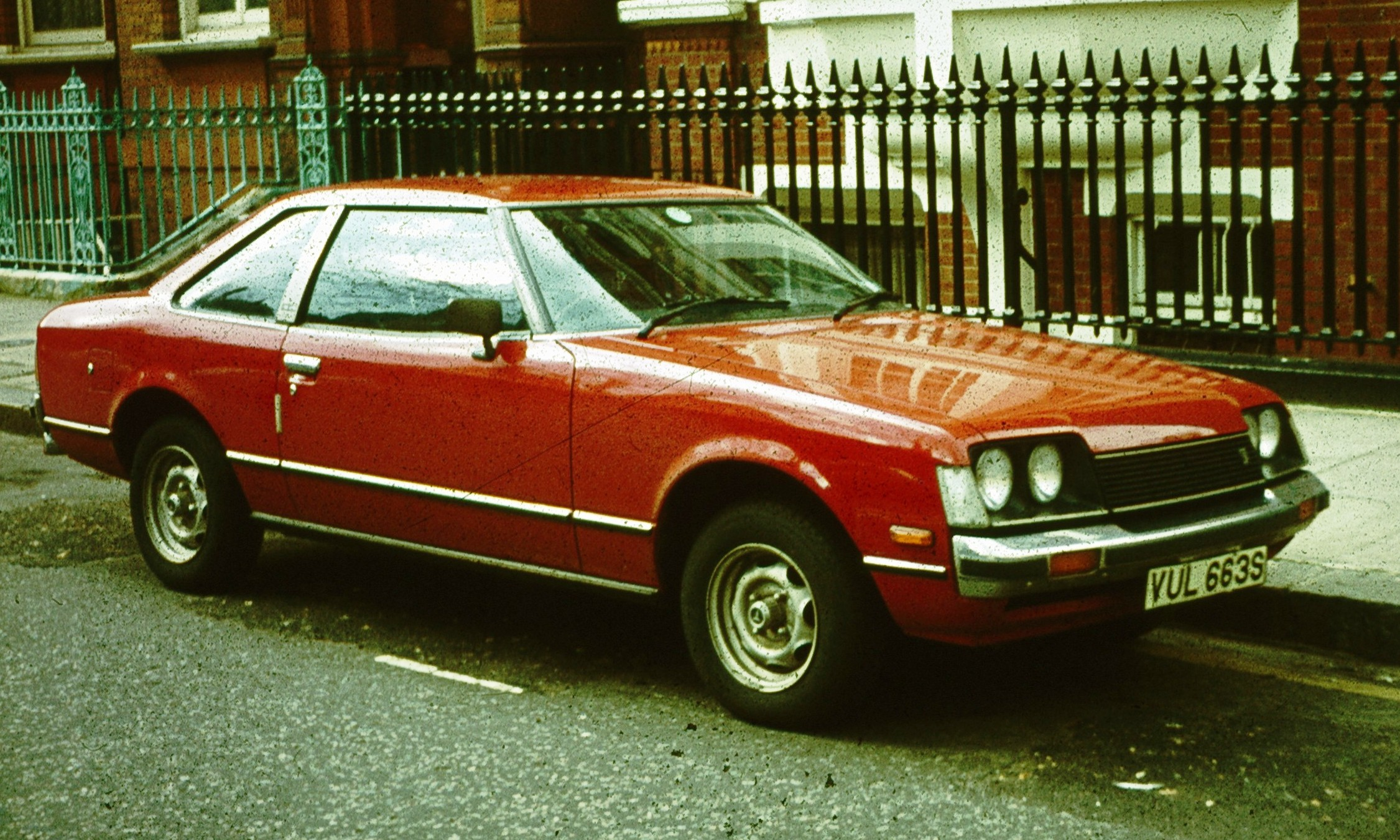 Toyota Celica Coupe 1600 ST (TA40) in London 1978